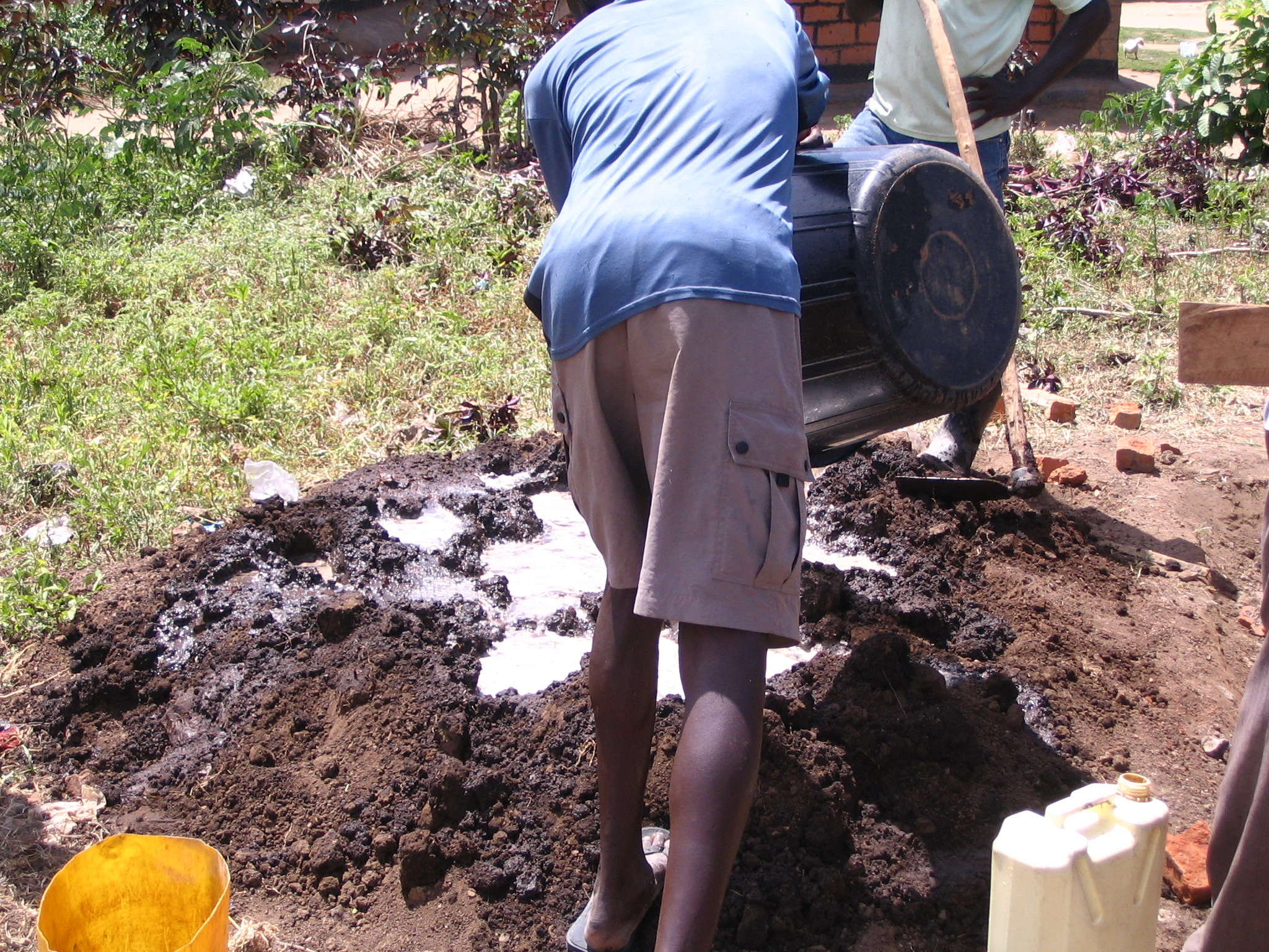 Training of masons: preparation of mud mortar